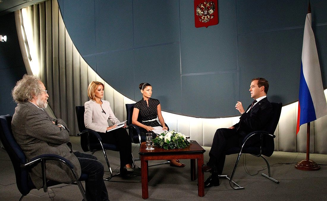 Dmitry Medvedev gave an interview to Russia Today and First Informational Caucasus television (Kanal PIK) channels and the Ekho Moskvy radio station.